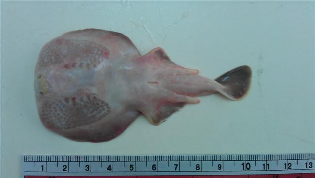 Finless sleeper ray (Temera hardwickii) at Phuket Fishing Port, Thailand